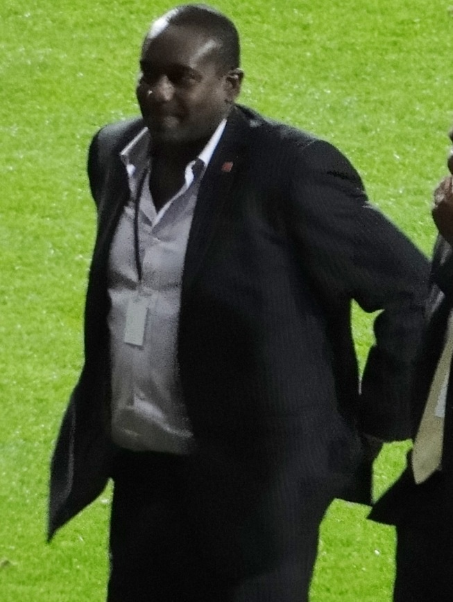 Former West Ham United footballer, George Parris, at a benefit match for Tony Carr at The Boleyn Ground, 2010